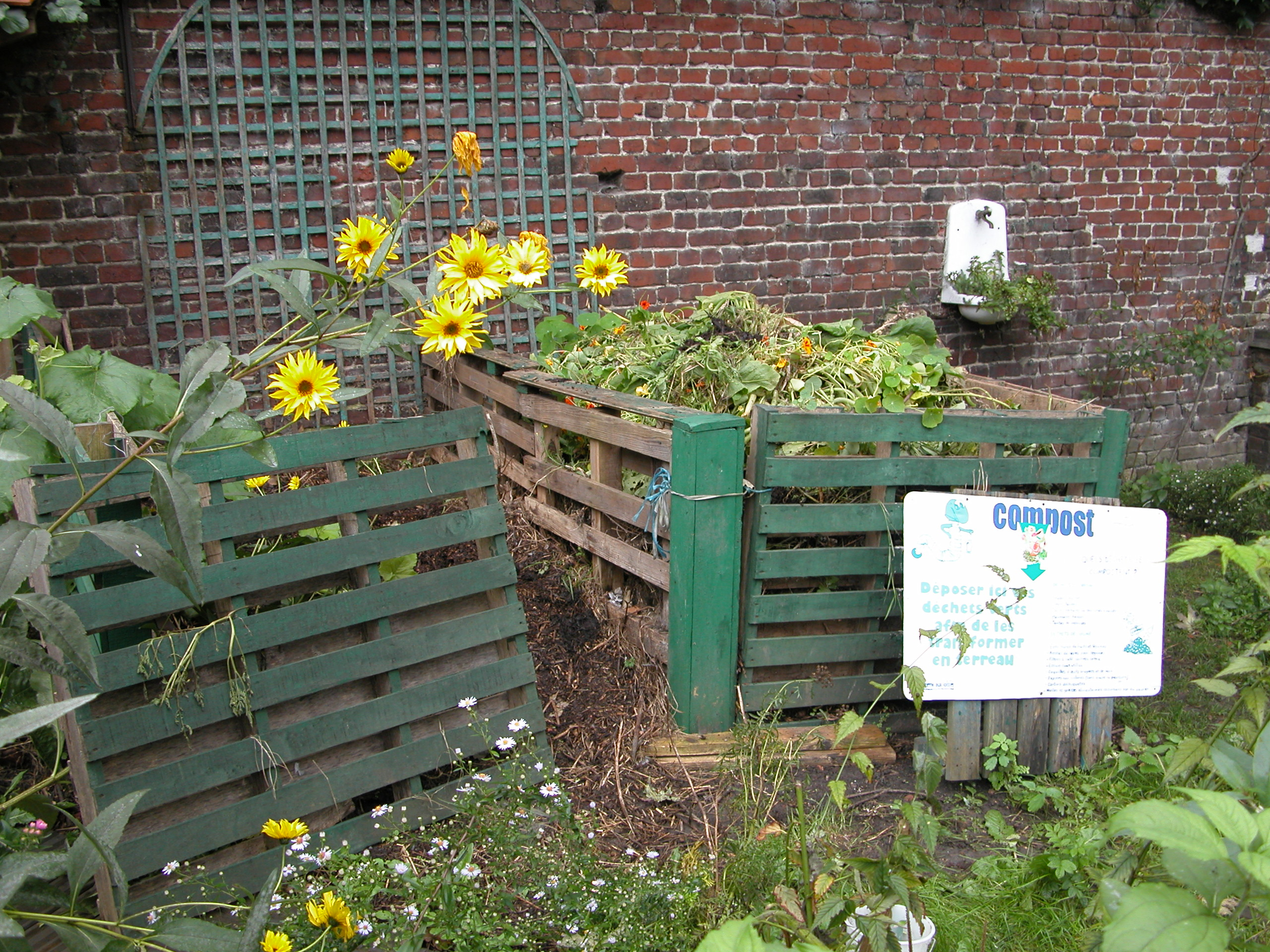 Home Composting in Roubaix (Nord, France).